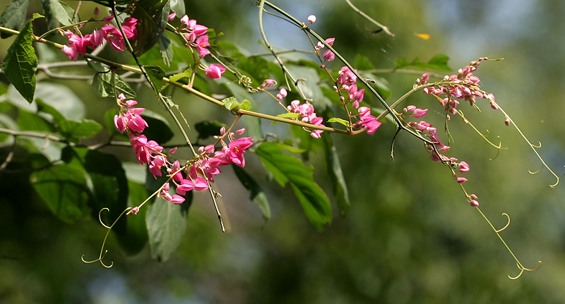 Coral Vine, Anantalata or Icecream flowers Antigonon leptopus in Hyderabad , India.